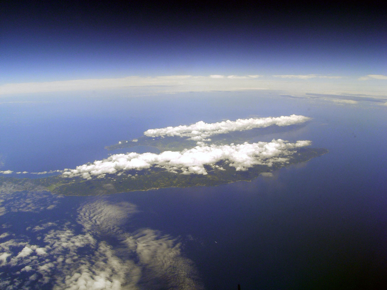 Sado island, Niigata, Japan.